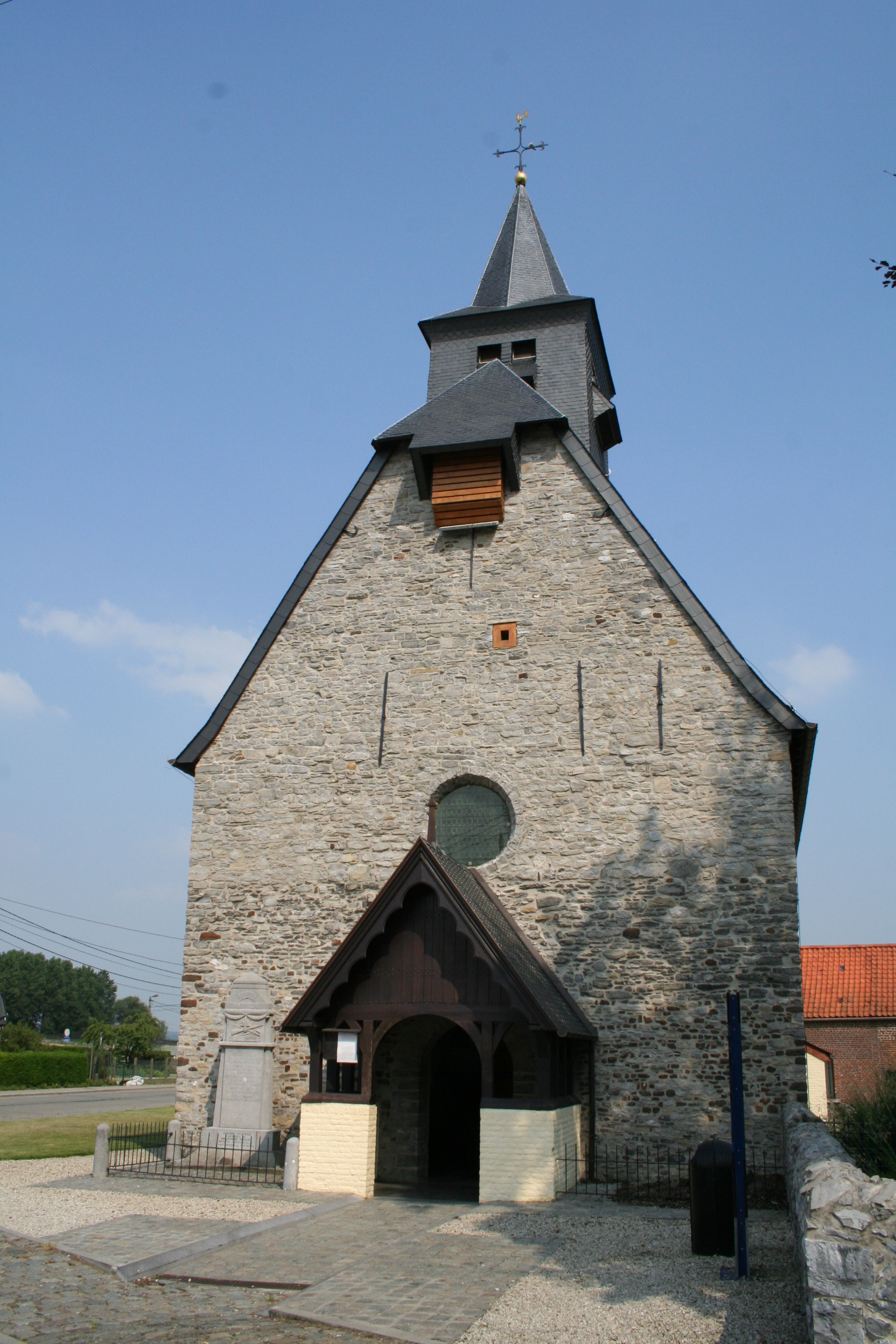 Cordes (Belgium), the St. George's church (XIIth century).